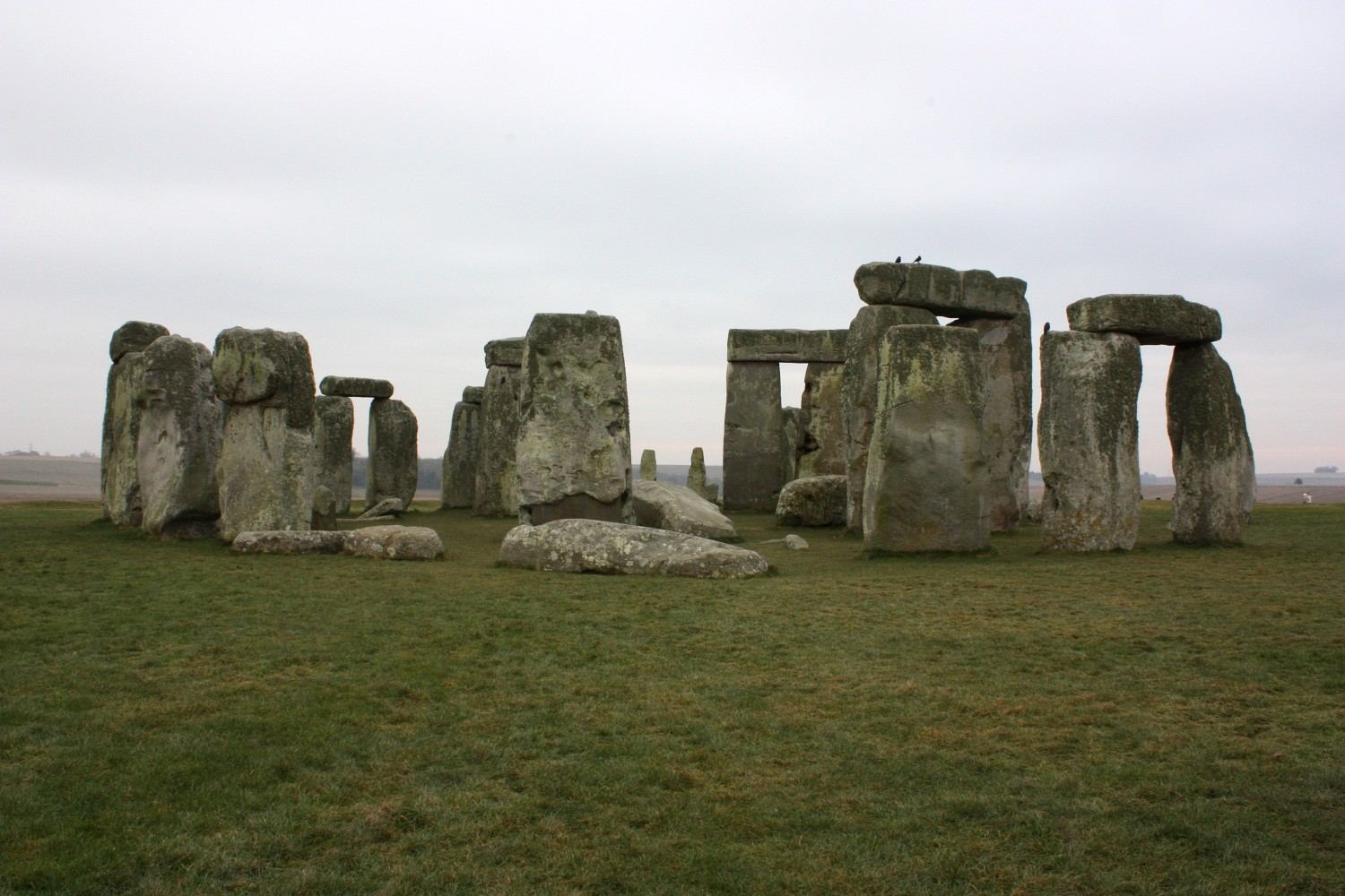 The prehistoric monument of Stonehenge in Wiltshire, England.